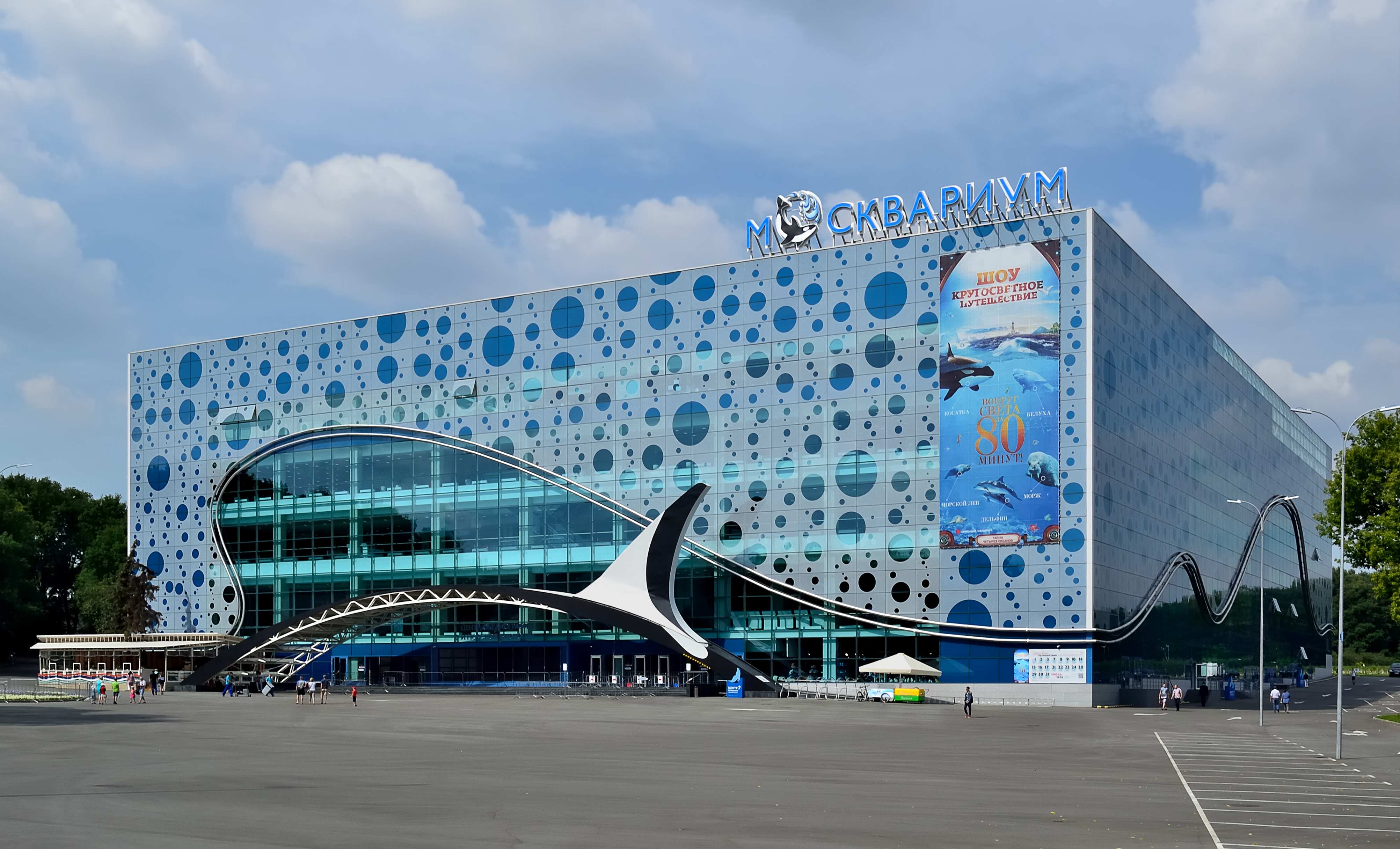 Moscow. VDNKh (the Exhibition of Achievements of the National Economy). The Centre of Oceanography and Marine Biology Moskvarium. 2015. A photo from the user collection VDNKh.